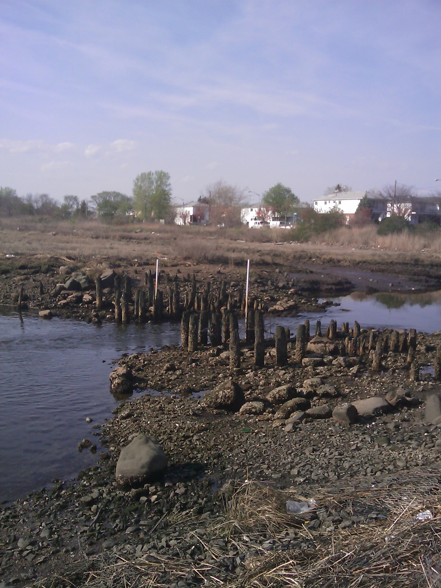 Looking north into Queens, at are wooden supports for what used to be a bridge crossing the water between Queens and Nassau Counties for the Cedarhurst Cutoff rail line.